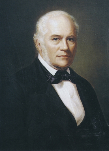 Jón Sigurðsson as painted by Þórarinn B. Þorláksson